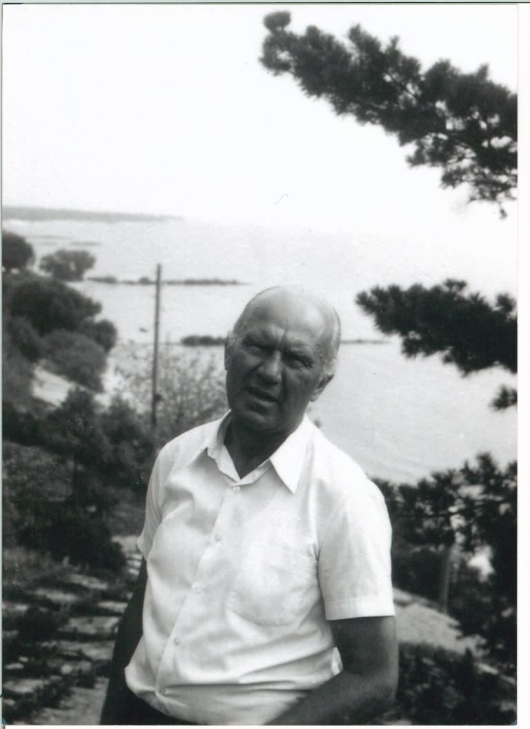 Viktoras Miliūnas